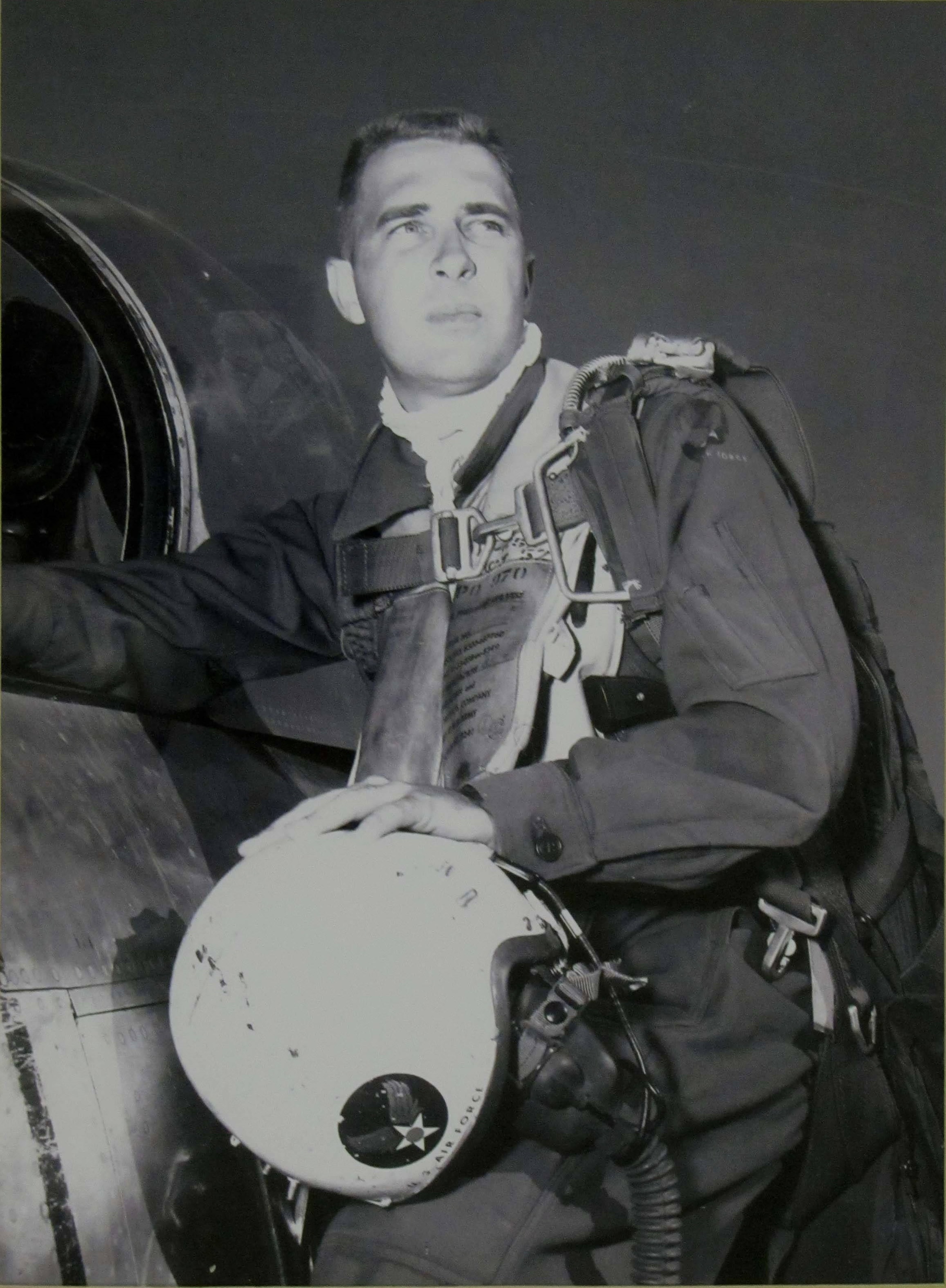 A photograph, displayed in the 335th Fighter Squadron Headquarters building of Captain Clyde A. Curtin. This photograph is part of a collage depicting seven of the sixteen Korean War fighter aces from the 335th Fighter-Interceptor Squadron. Captain Curtin is credited with five kills and became an ace with his fifth kill on 19 July 1953.